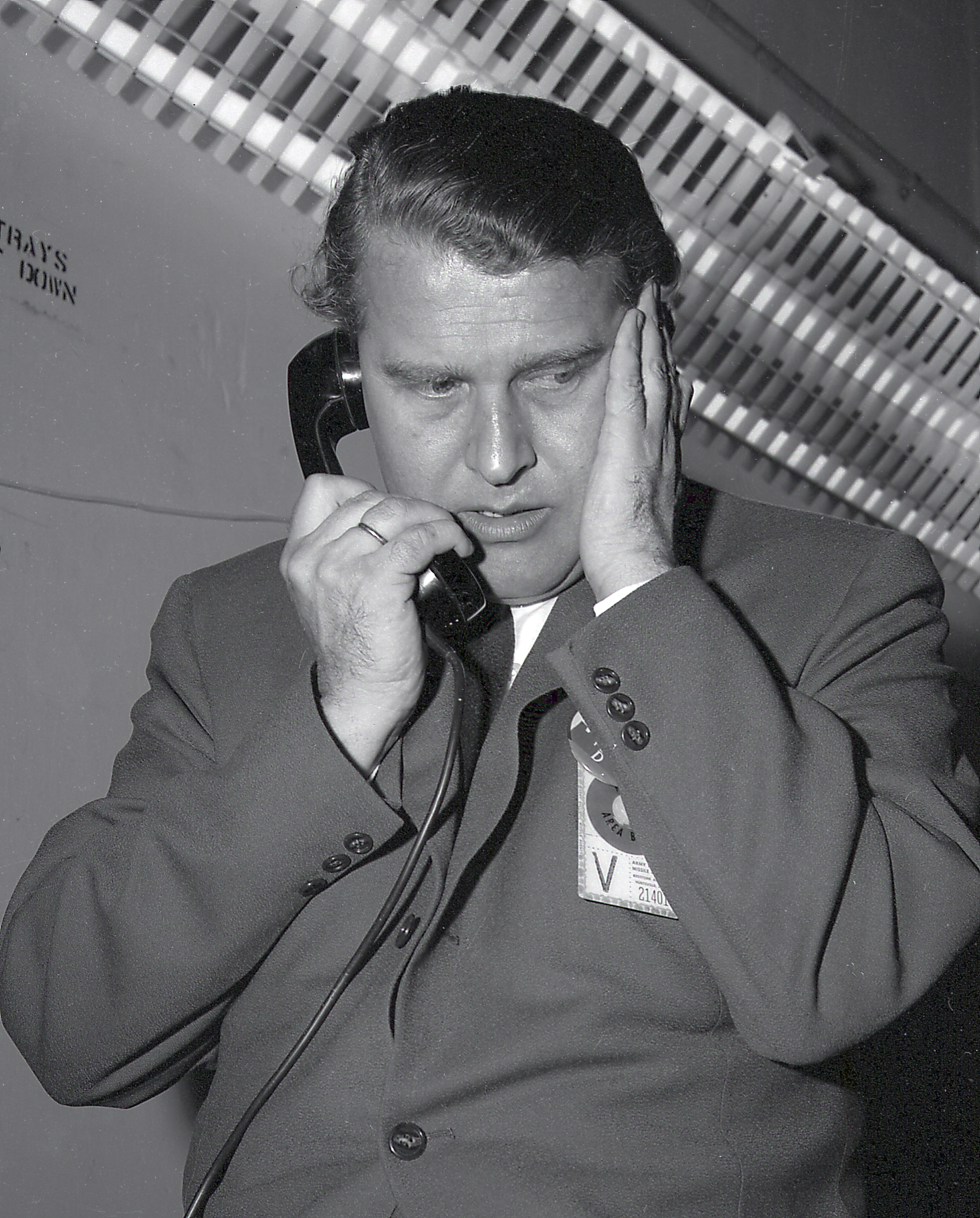 Much of Dr. Von Braun's time was divided between his space-related work in Huntsville and his space-related trips to the launch site in Florida. Dr. von Braun is on the telephone here at Cape Canaveral, Florida in 1959 prior to the launch of the Pioneer 4